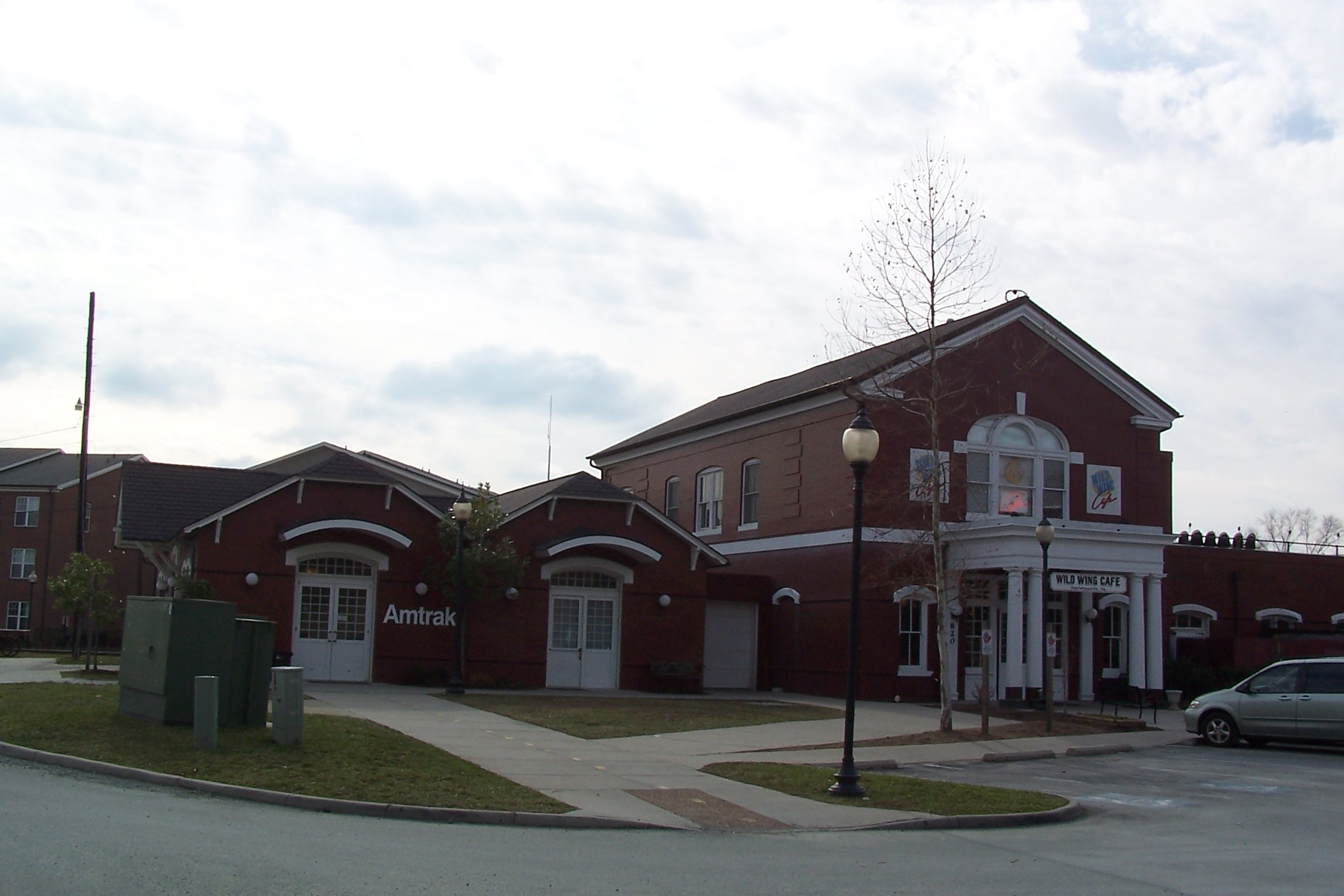 The Amtrak station in Charlottesville, VA. The right side of the building is a restaurant.